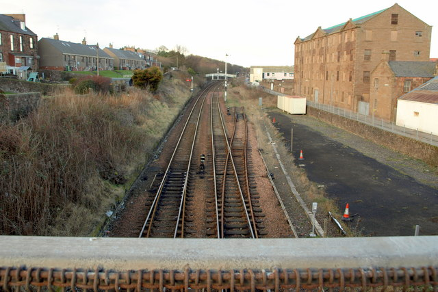 Railway at Arbroath north of High Road Bridge Picture taken from High Road Bridge (Guthrie Port).